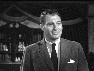 Alan Marshal in the film House on Haunted Hill.